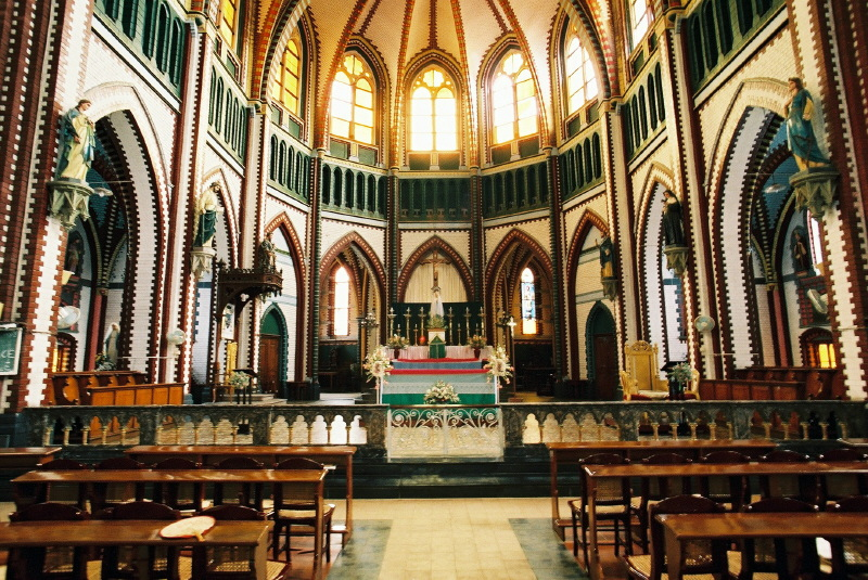 Inside St Mary's Cathedral, Yangon, Myanmar.